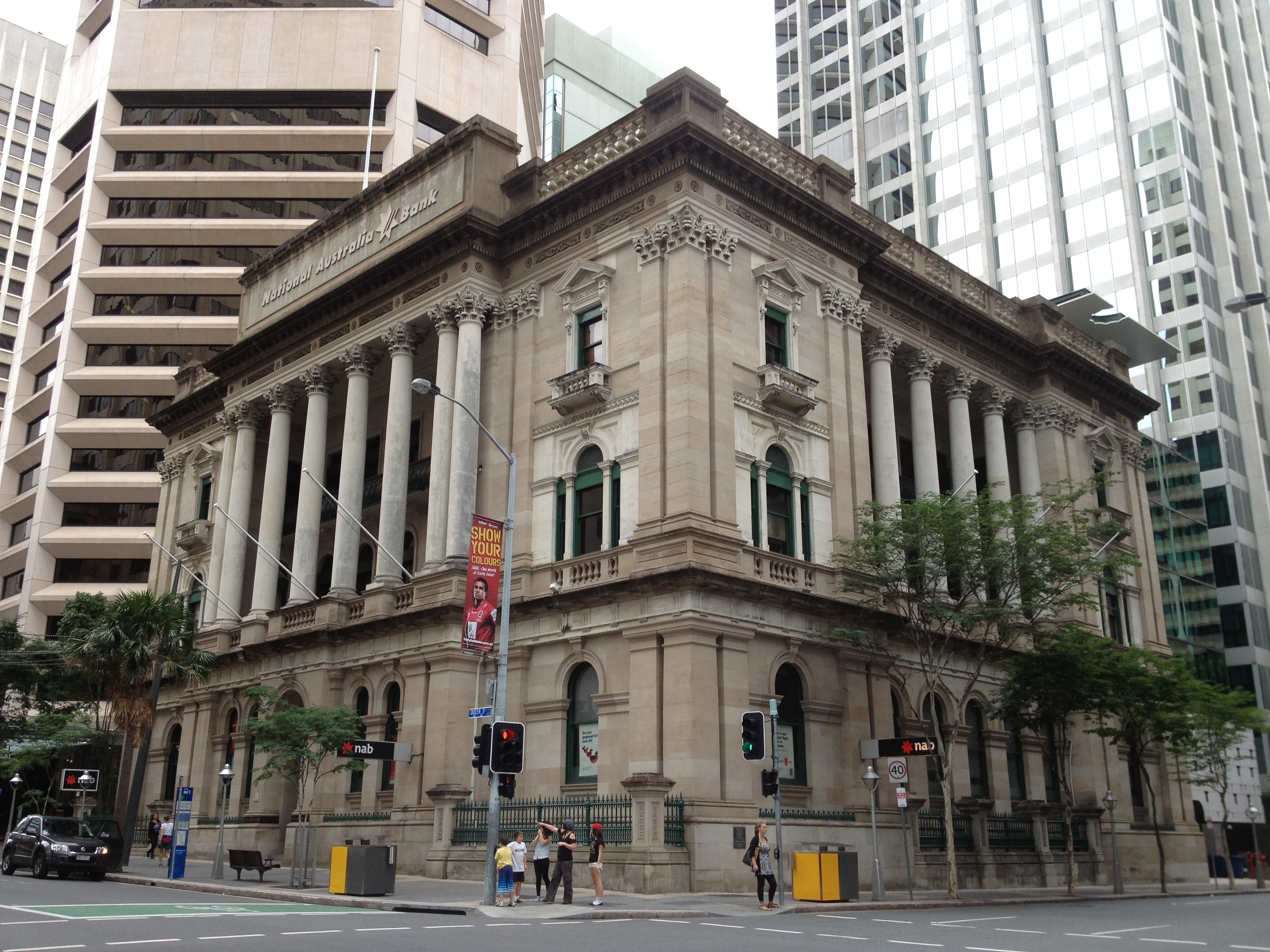 Queensland National Bank building corner Queen St and Creek St, Brisbane